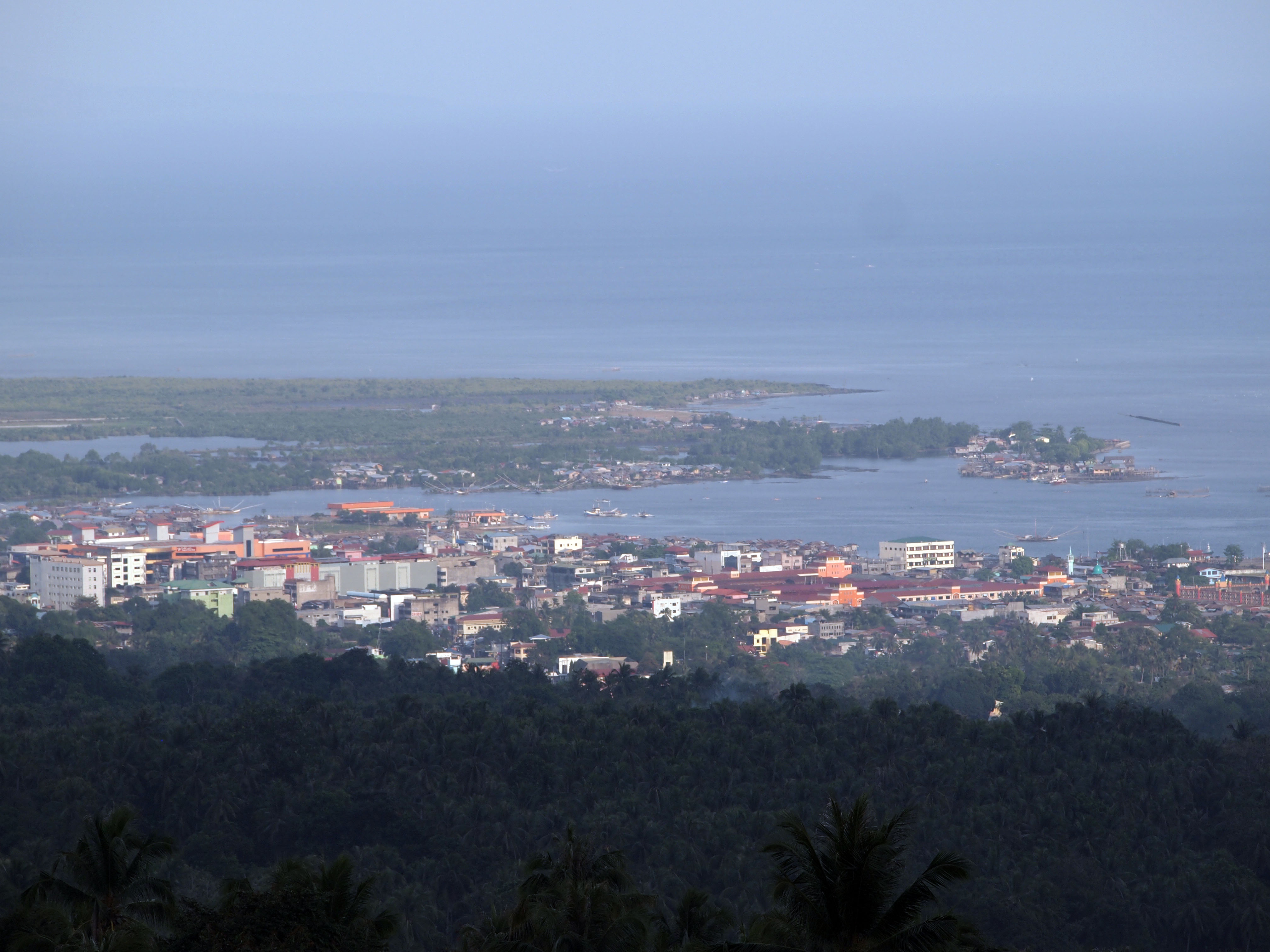 View over Pagadian City